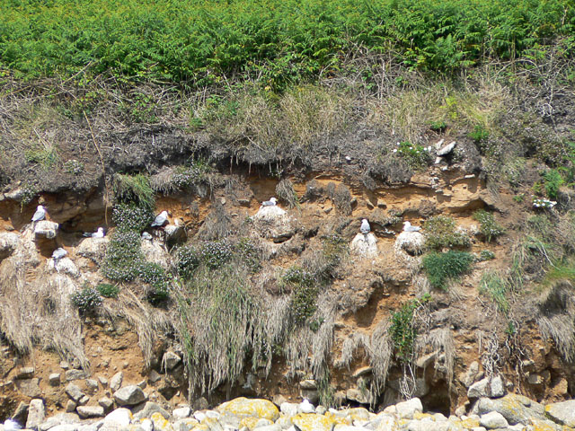 Kittiwakes on St Helen's, Isles of Scilly. The kittiwakes here are roosting on the low cliffs on the eastern coast of St Helens 1618460. Kittiwakes are more associated with high, rocky cliffs, but will also nest on low cliffs, like these, if they are secure.